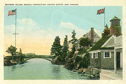 Image created c. 1910